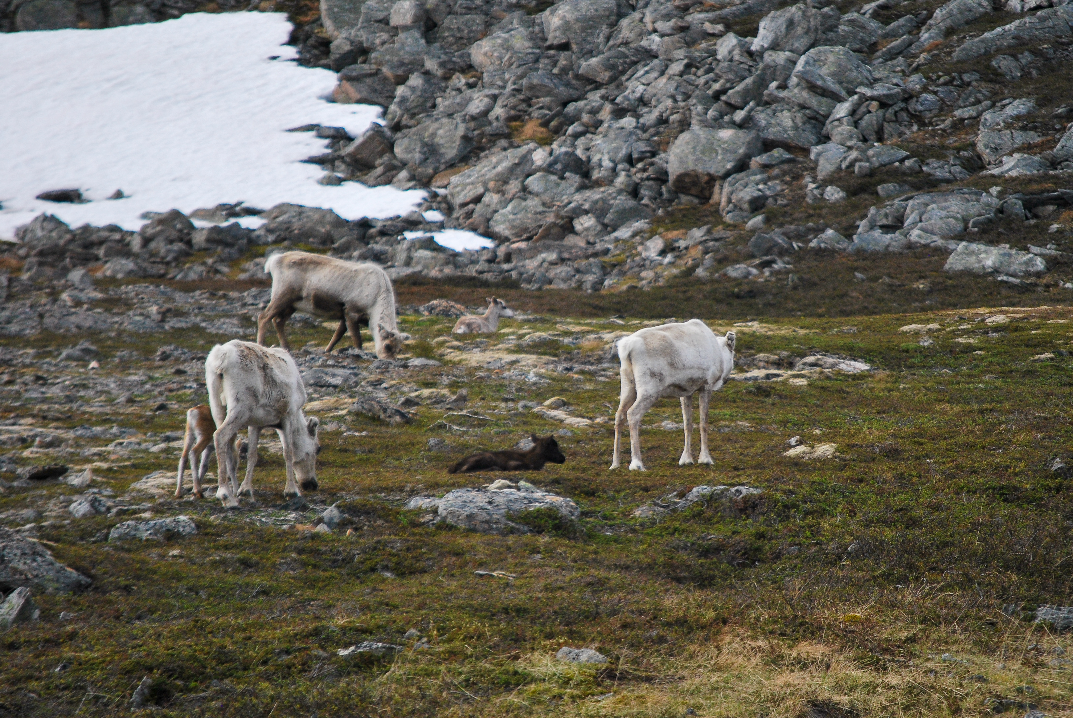 Small herd of female Svalbard reindeer (Rangifer tarandus platyrhynchus), near Gjesvær, Norway on June 7, 2011. The females have calved but the thin bodies and scrubby coats suggest it has been a hard winter. They are looking for new grass.